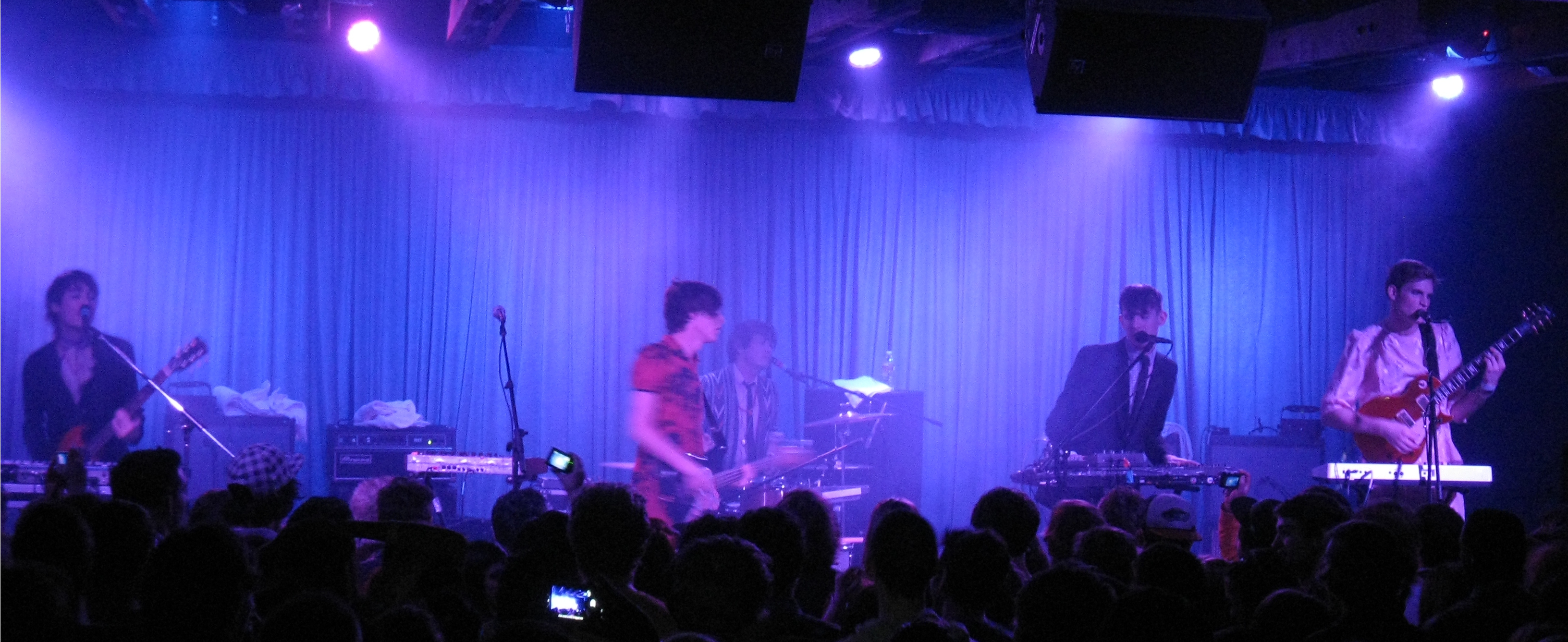 Picture of five members of Starfucker playing at the Crescent Ballroom in Phoenix, AZ on January 10, 2012. Two members are wearing dresses (2nd and 5th from left) and a third is wearing a skirt and leggings or tights (not shown, 1st from left).